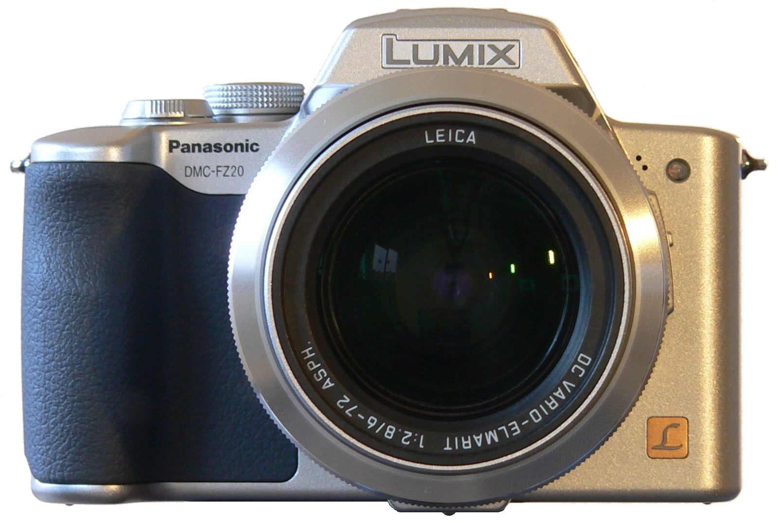 Front View Of The Panasonic Lumix DMC-FZ20